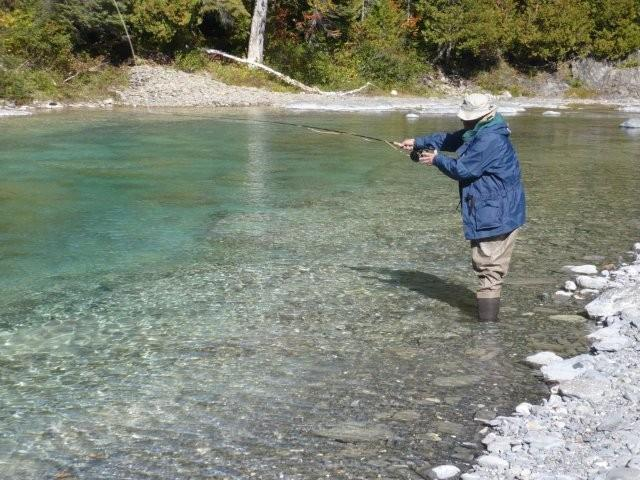 This is the petit pablos river. Not the north one. Almost each year for the past 10 years, I went to a salon fishing trip with my father on the 3 Pabos Rivers near Chandler in gaspesia, Québec. I took a lot of photos of the 3 rivers. I took the pictures myself.